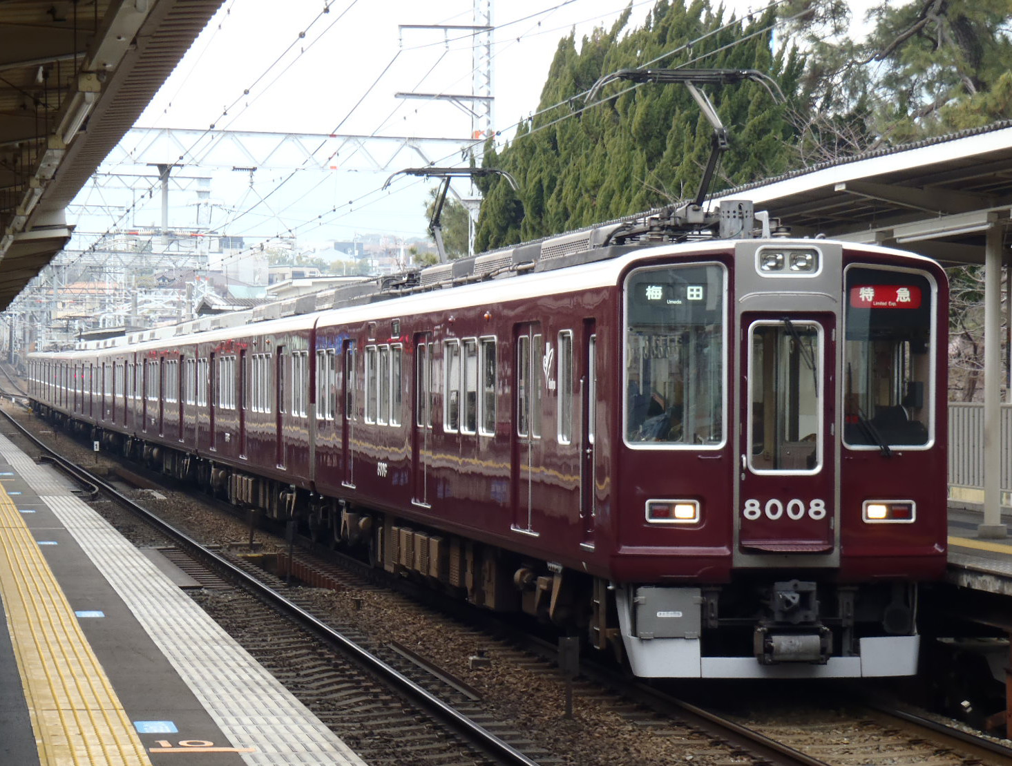 Hankyu Railway 8000 series EMU set 8008 at Shukugawa Station